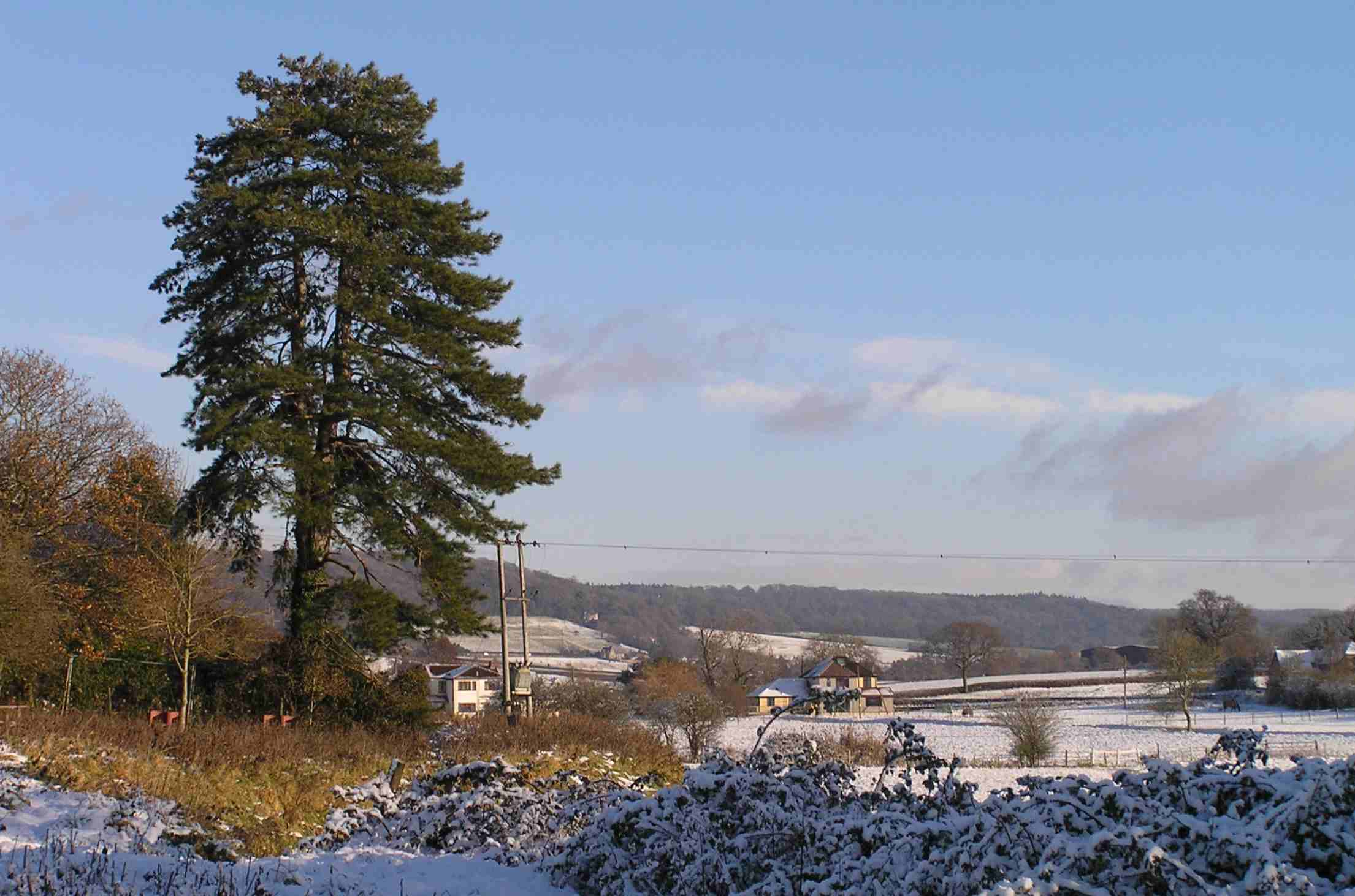 Moorend Spout in Nailsea / Tickenham with snow and Corsican Pine